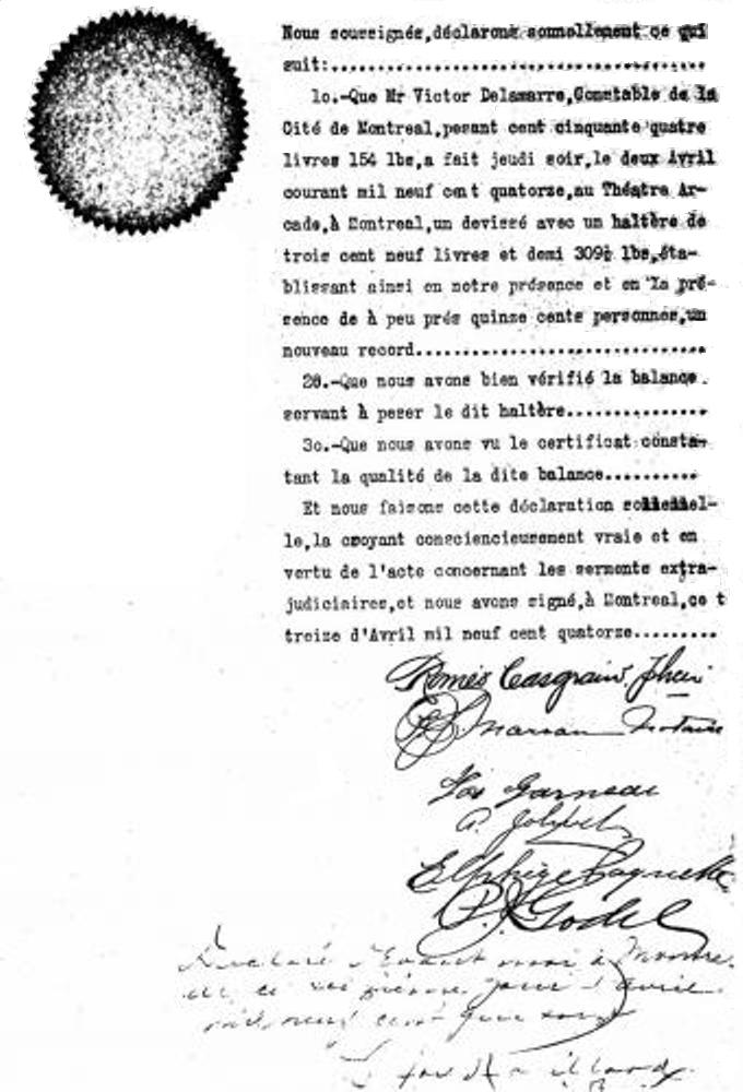 Certificate of Victor Delamarre's exploit of April 2, 1914